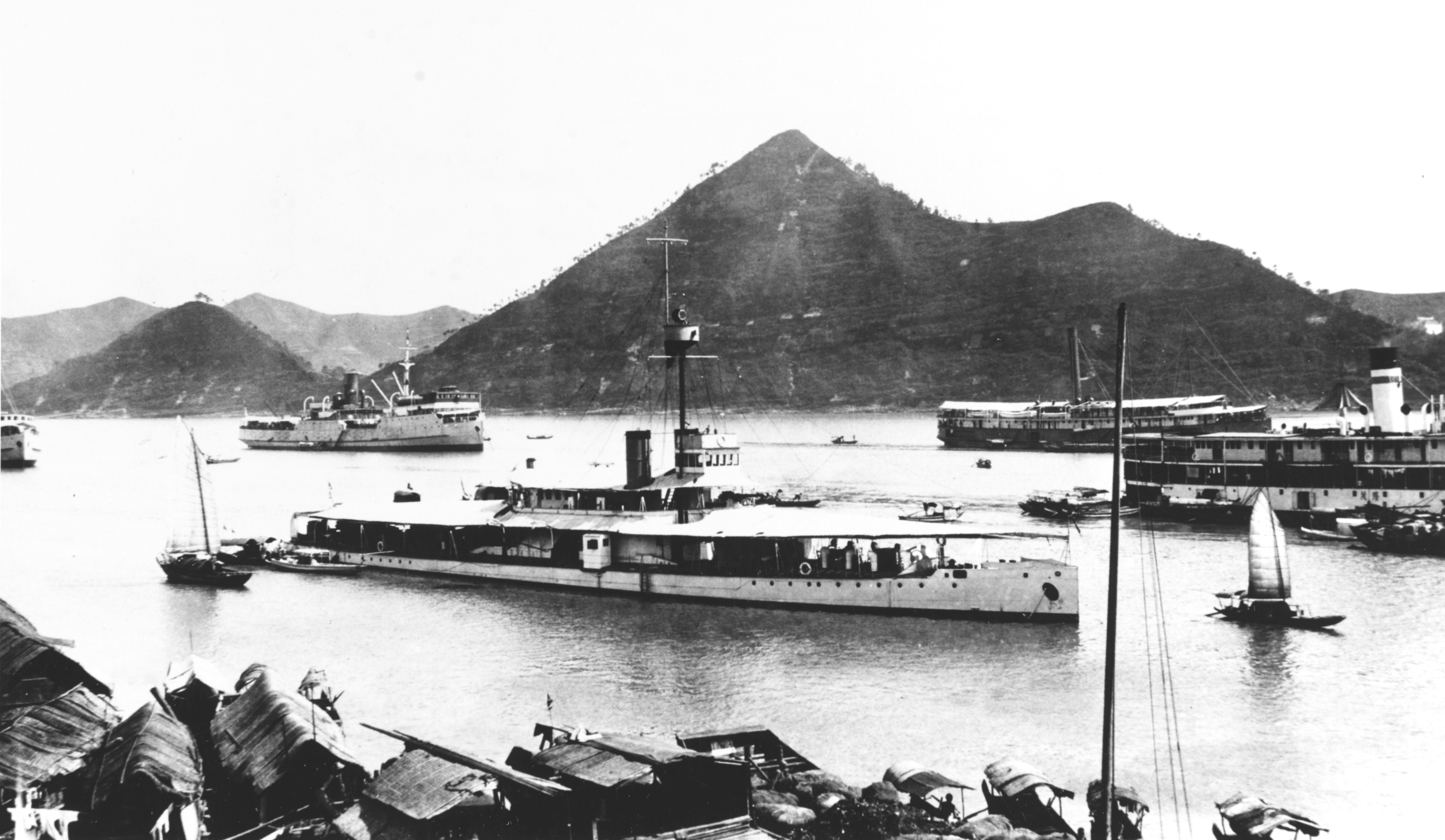 The Royal Navy gunboat HMS Ladybird at Shanghai, China, circa the 1920s. Ladybird was allocated to Singapore in 1940 and then, along with five others of the class, stripped down and towed to the Mediterranean.